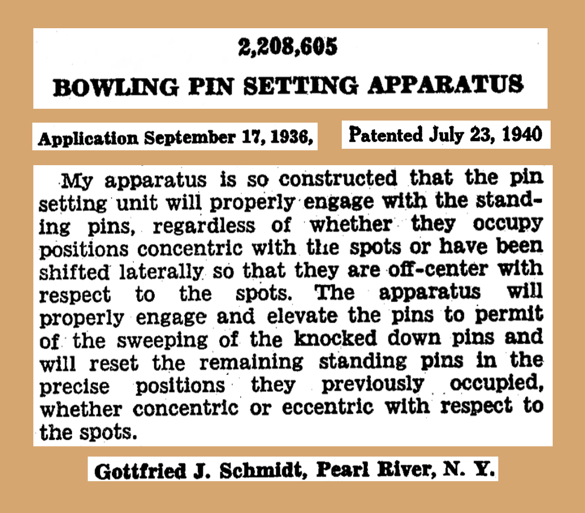 Collage of excerpts clipped from U.S. Patent 2,208,605 -- "Bowling pin setting apparatus", issued to Gottfried J. Schmidt on July 23, 1940.